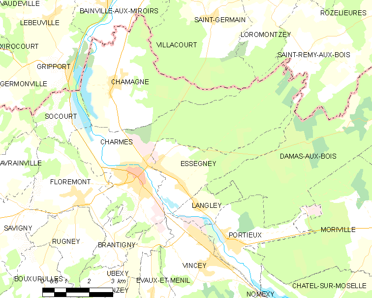 Map of French municipality Charmes